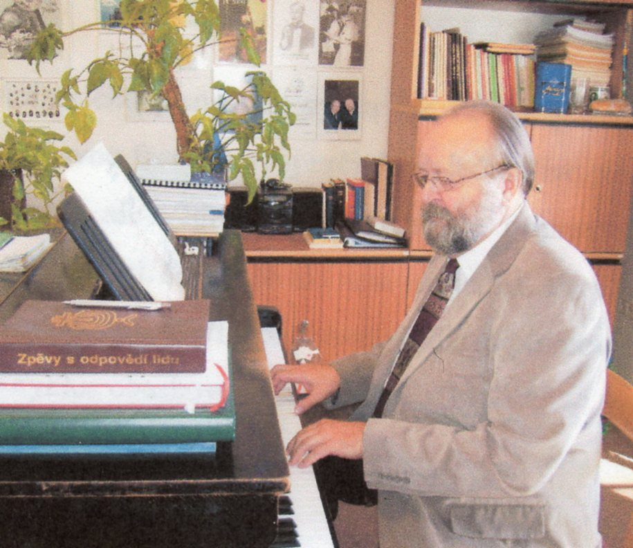 Jan Kyselák photo.